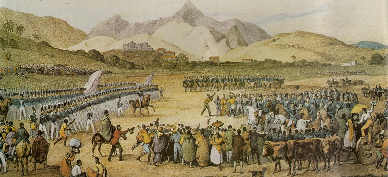 Third Batallion of the Brazilian Army in São Cristóvão (Saint Cristopher), Rio de Janeiro.